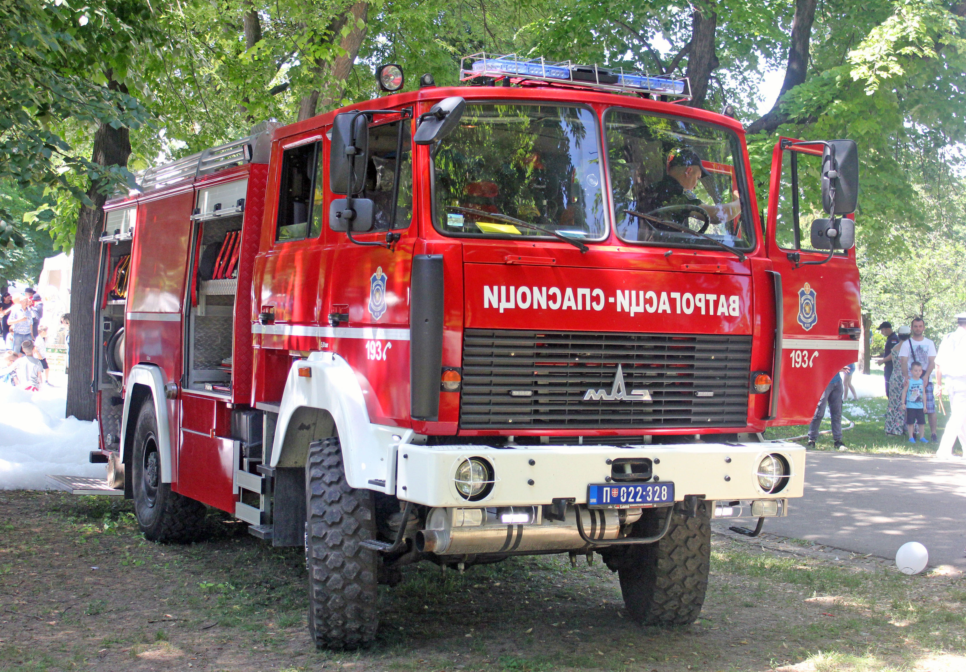 New MAZ 5316 fire engine of Belgrade fire and rescue brigade on 2018 Police Day at Belgrade.